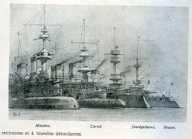 French Battleship